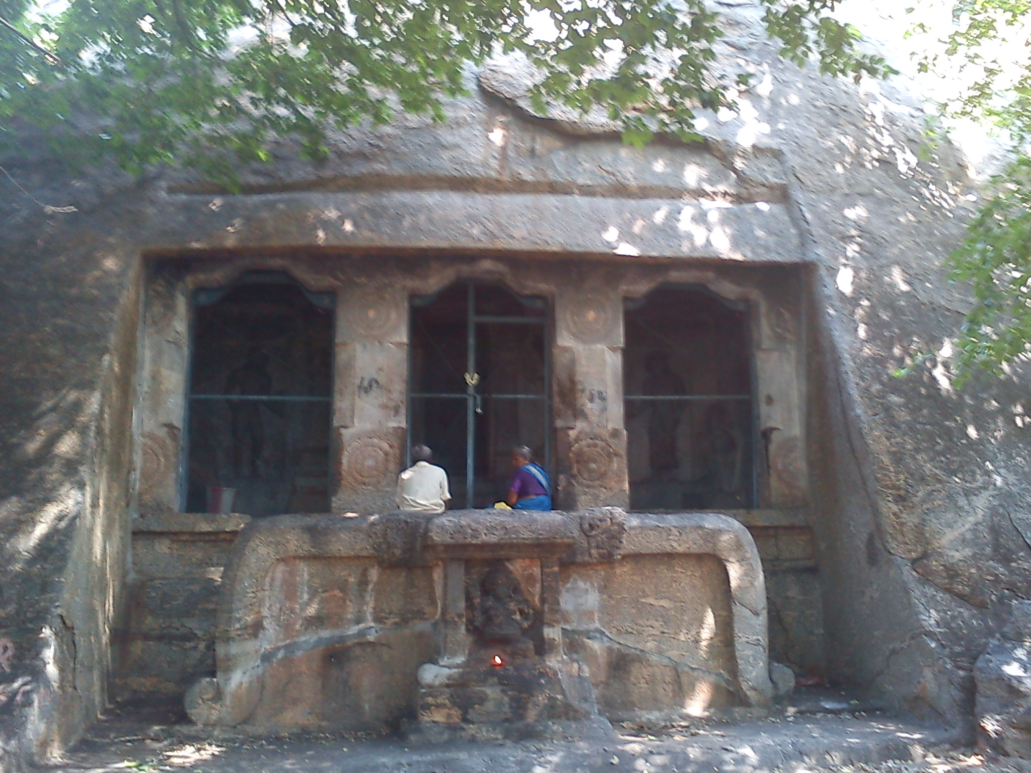 Seen here are people worshipping the Hindu God Muruga in the Rock Cut temple.